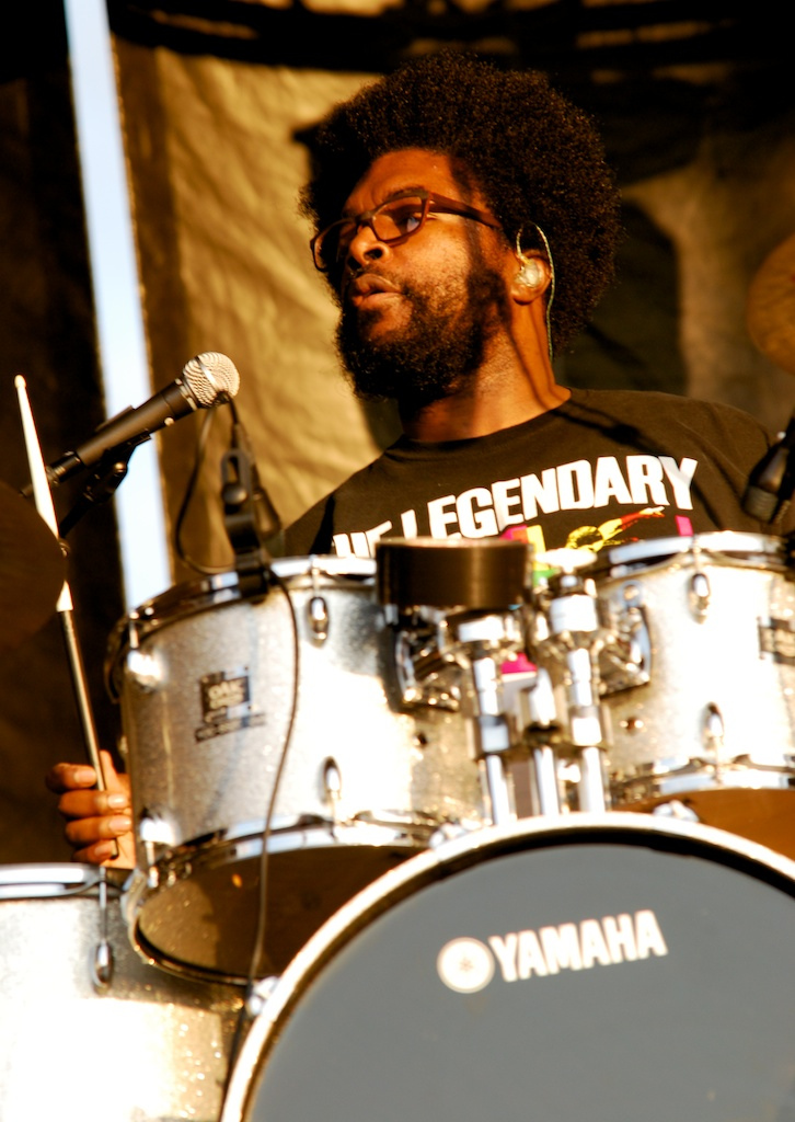 Questlove with The Roots at the 2011 Cisco Ottawa Bluesfest.